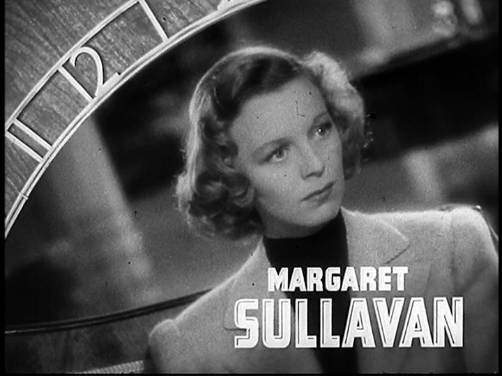 Cropped screenshot of Margaret Sullavan from the trailer for the film The Shining Hour